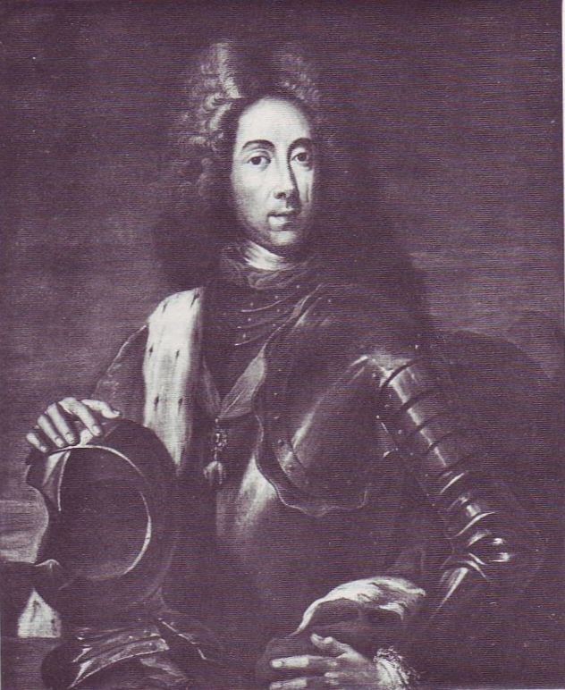 Portrait of Prince Eugene of Savoy (1663-1736) by Jean van Orley, town hall Brussels. Oil on canvas, 102 x 87 cm.